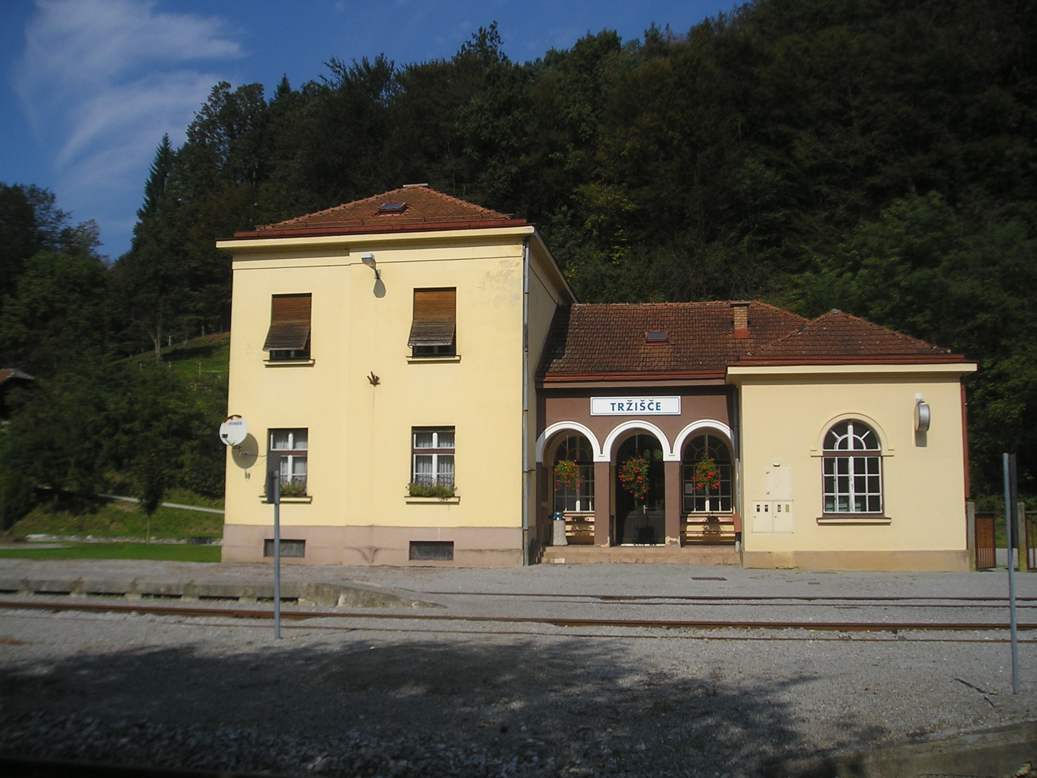 Train station in Tržišče, Slovenia